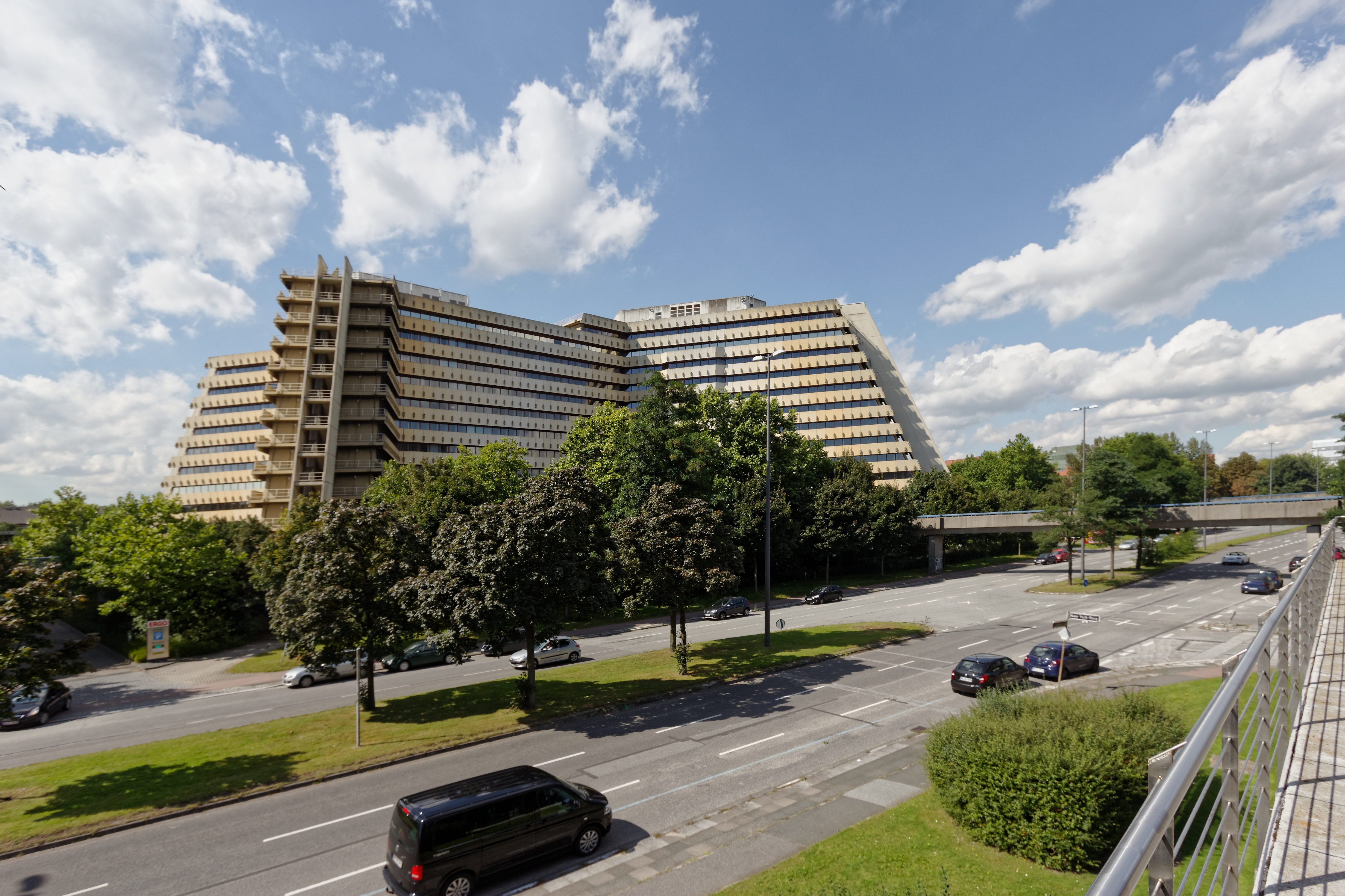 Hamburg-Winterhude, City Nord, office buidling Überseering 30 with street Überseering in front